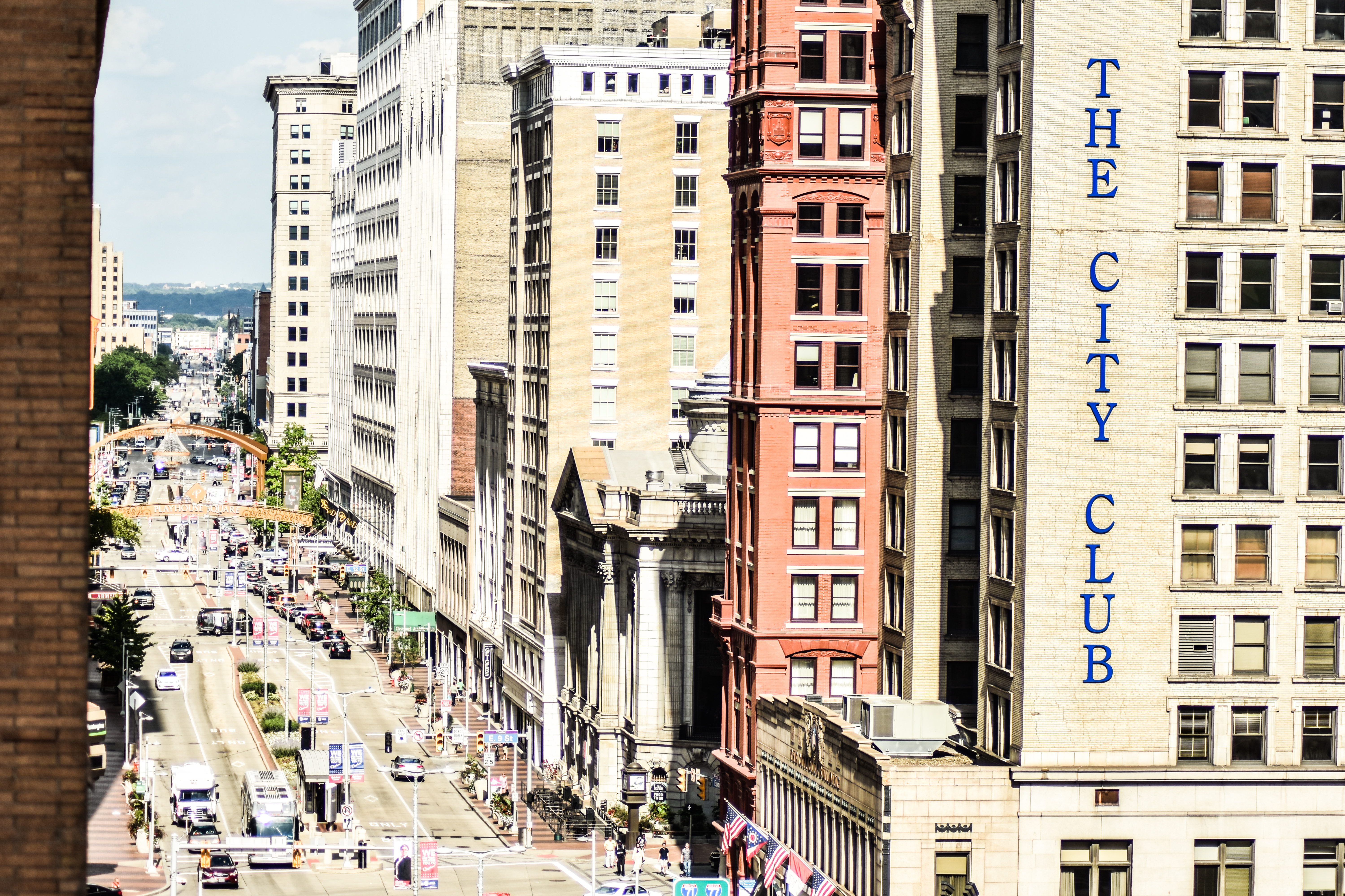 The City Club Building along Euclid Avenue in Downtown Cleveland.